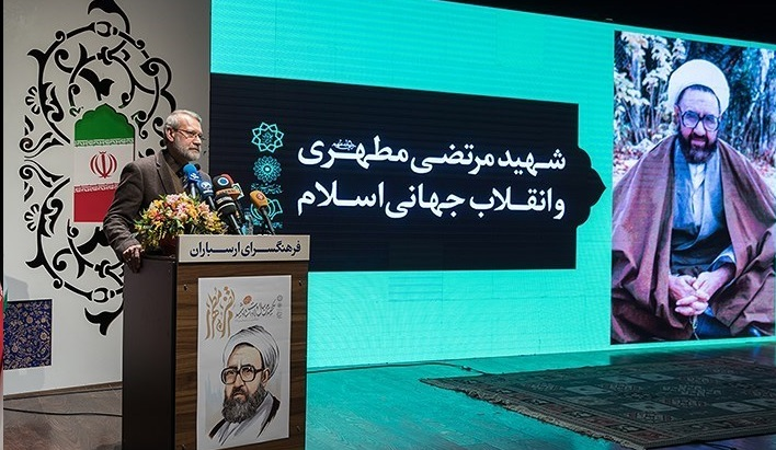 Celebrating the anniversary of the birth of Martyr Motahhari